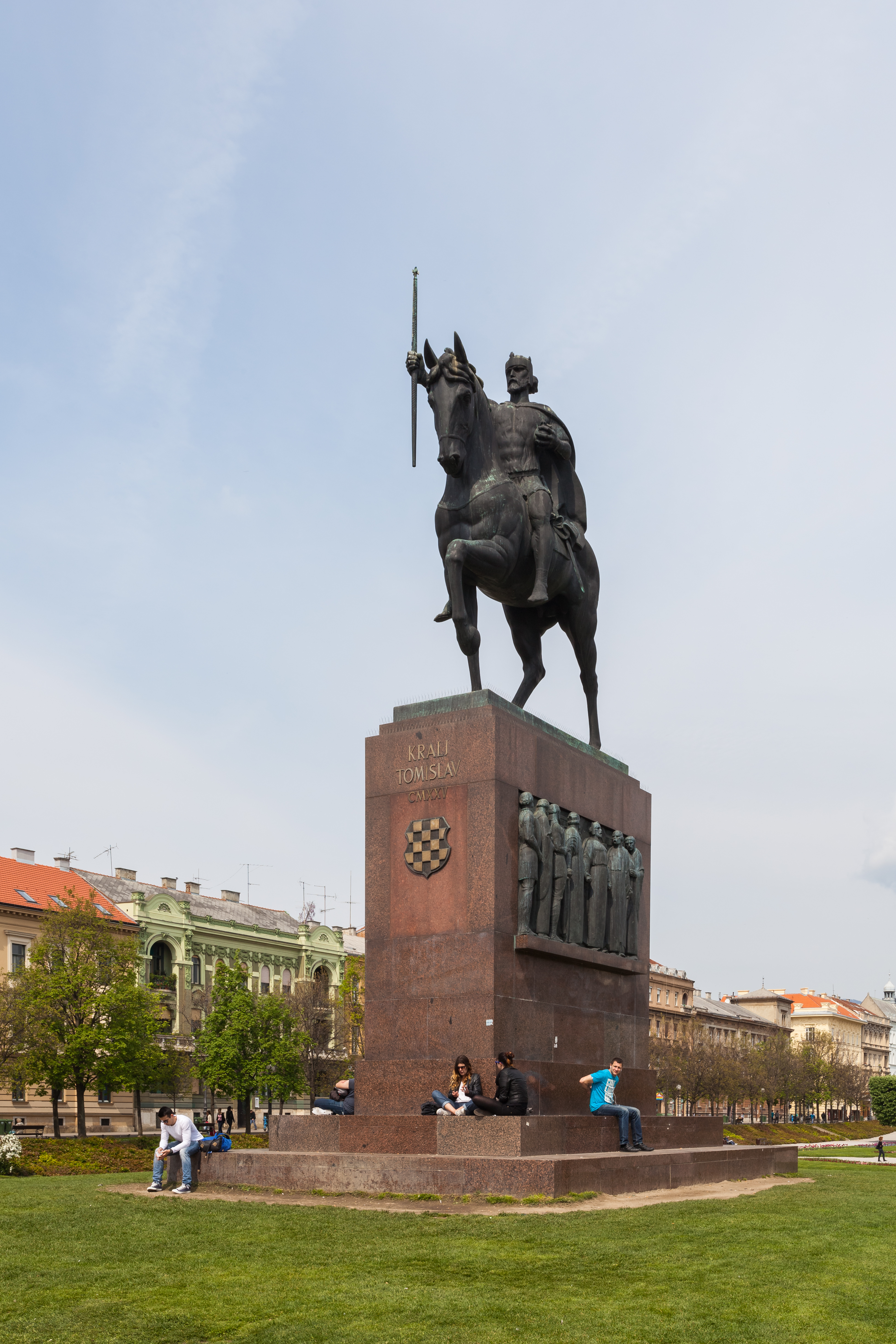 Statue of King Tomislav of Croatia, Zagreb, Croatia